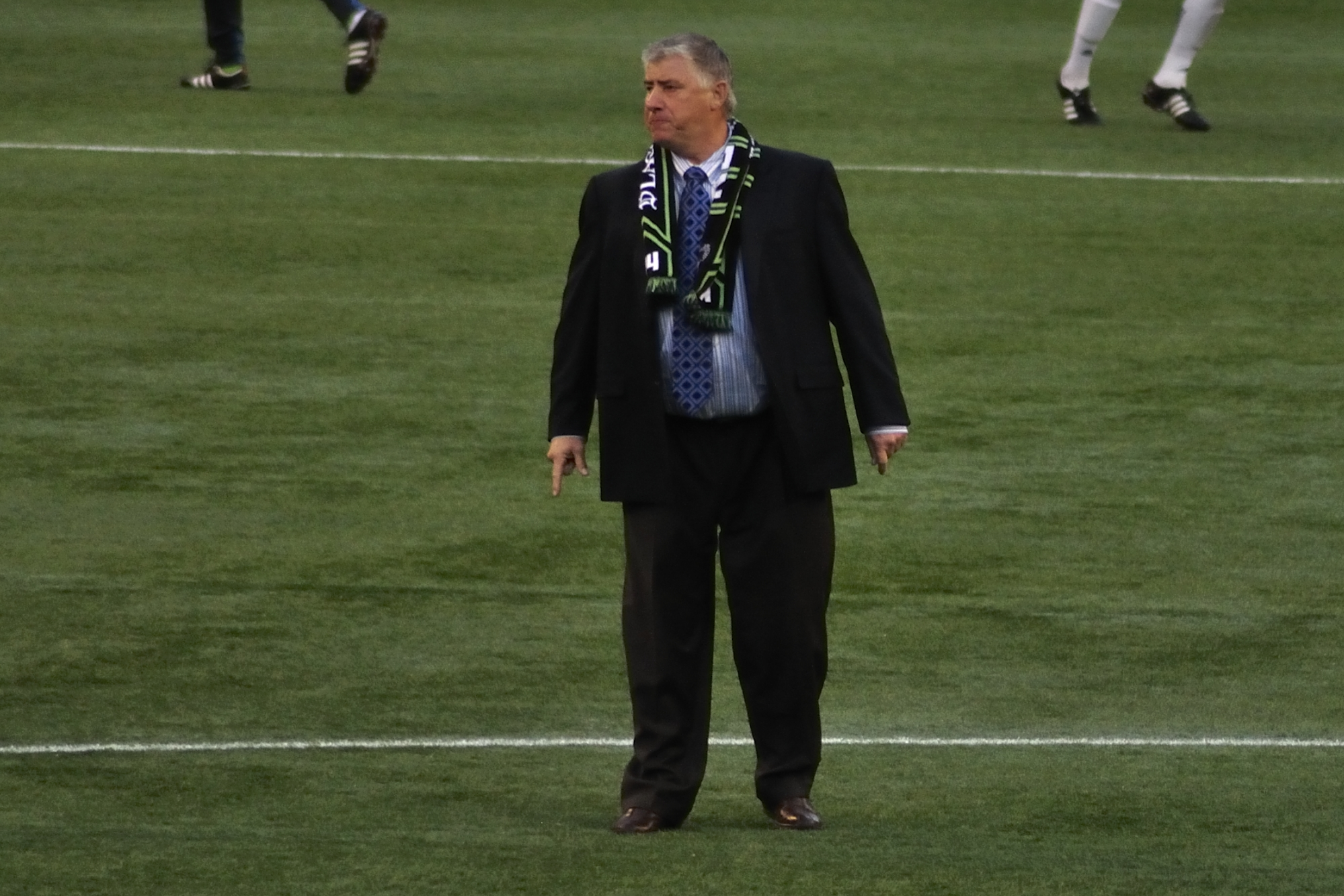 Sigi Schmidt, coach of Seattle Sounders